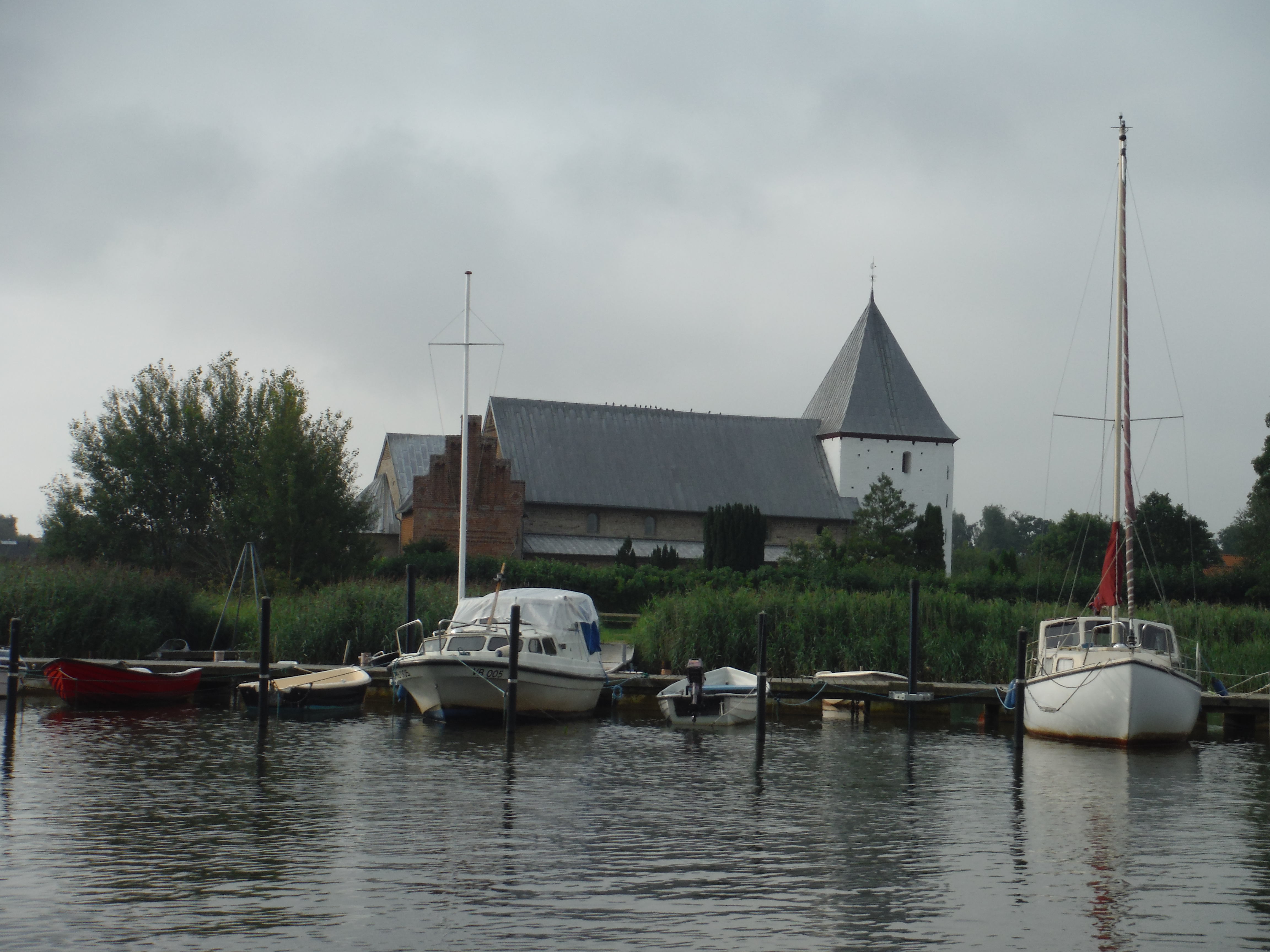 Starup Church from Haderslev Fjord.